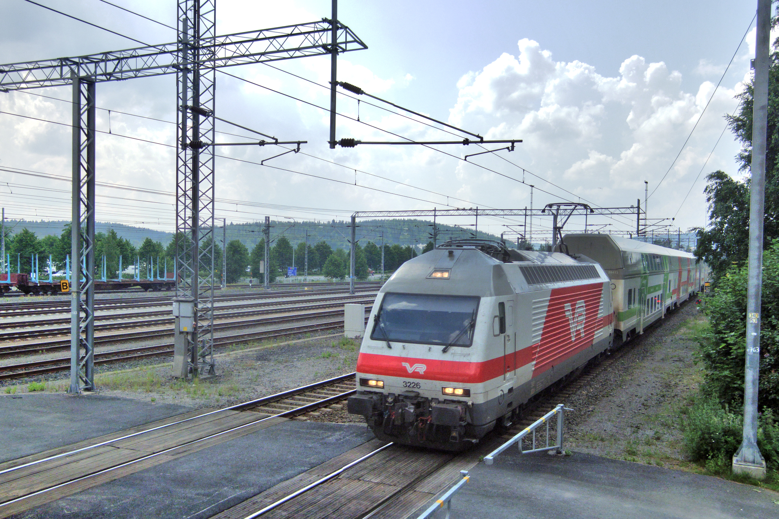 IC2 85, pulled by VR Class Sr2 locomotive number 3226, arrives at Jyväskylä, Finland.